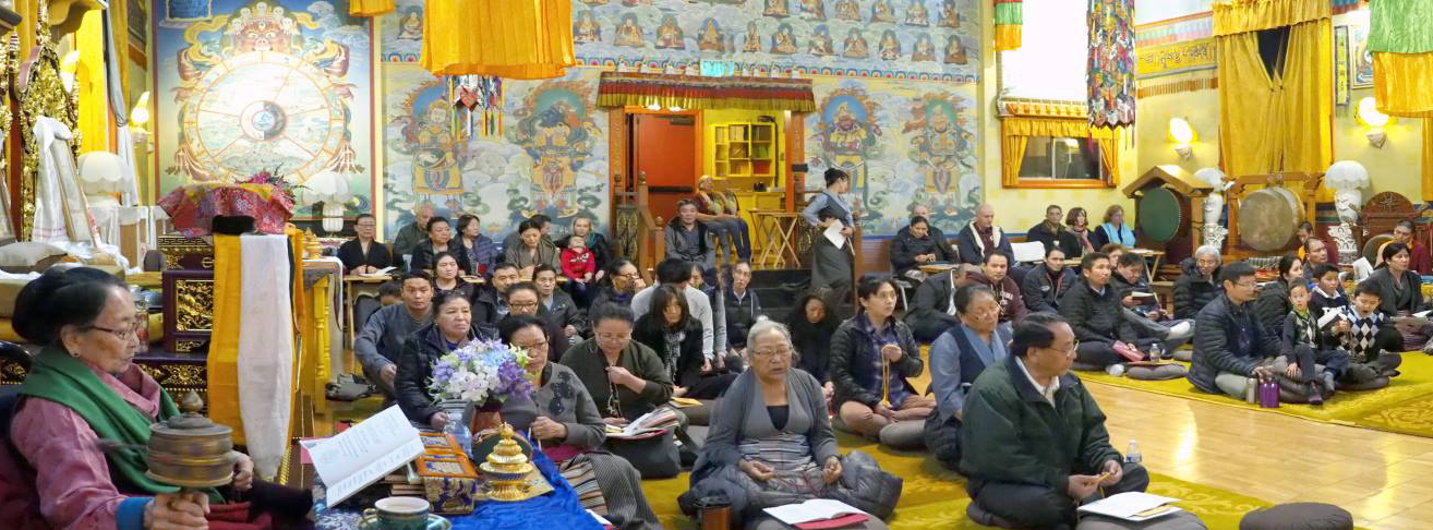 Prayer service for Late Losang Thonden at the Sakya Gonpa in Seattle. Nov 28, 2018